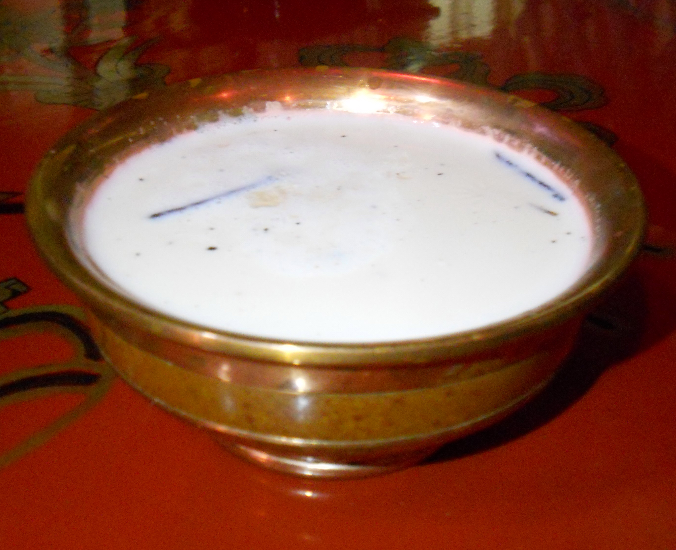 Mongolian milk tea.